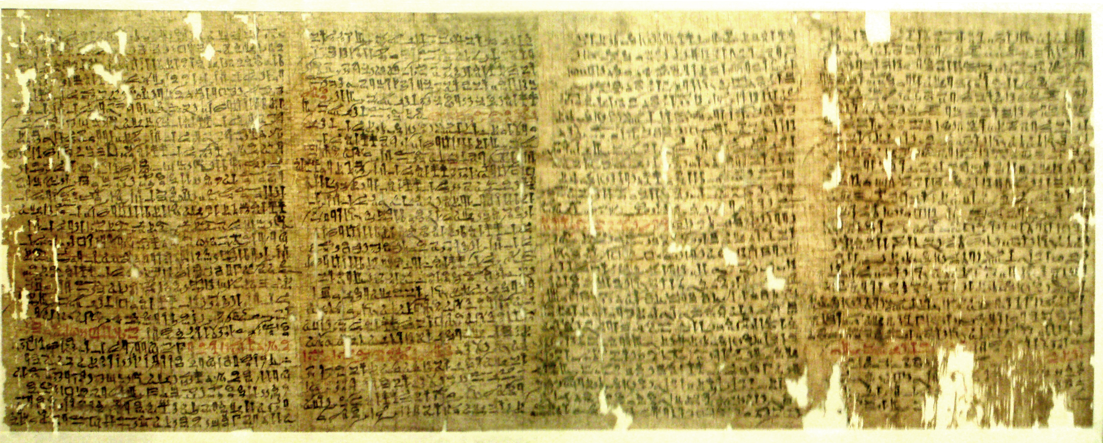 Merged photos depicting a copy of the Ancient Egyptian papyrus commonly known as "The Westcar Papyrus", sometimes also known by the longer name "Three Tales of Wonder from the Court of King Khufu", written in hieratic text. Photo(s) taken at the Altes Museum, Berlin, later merged and cropped using PhotoShop. Catalog number: P 3033.